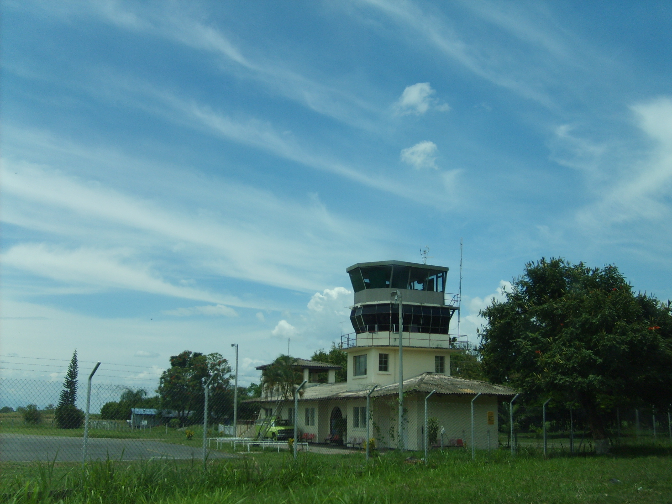 Tower of Airport Farfan "Heriberto Gil Martínez"